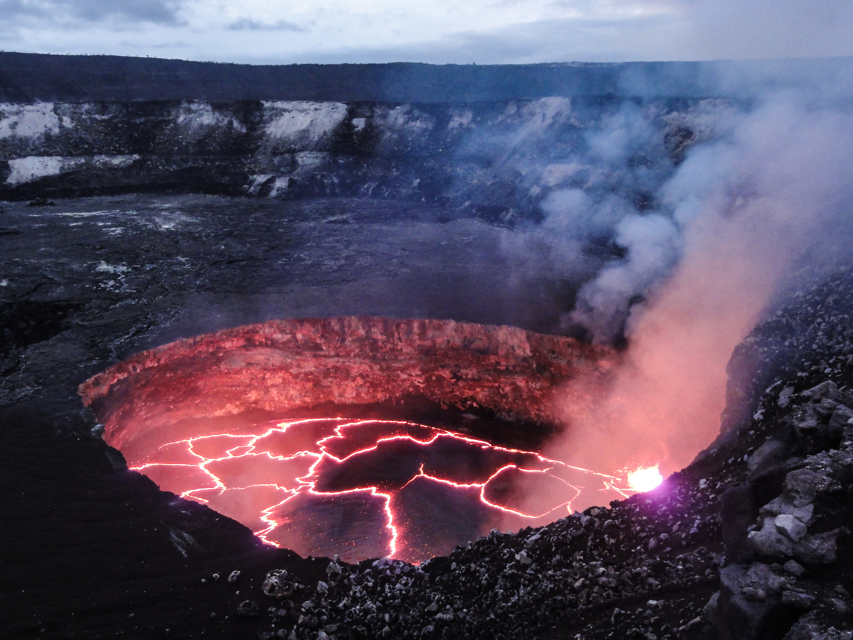 A view of the summit lava lake at dusk on Feb 1, 2014. The lava lake is contained within a crater informally called the "Overlook" crater (due to its position immediately below the former Halemaʻumaʻu visitor overlook), and this crater is set within the larger Halemaʻumaʻu Crater. The photo was taken from the rim of Halemaʻumaʻu Crater. The lava lake is about 50 m (160 ft) below the rim of the Overlook crater. The level has dropped slightly the previous day, leaving a black veneer of lava on the crater walls just above the current margin and easily visible in this photograph.